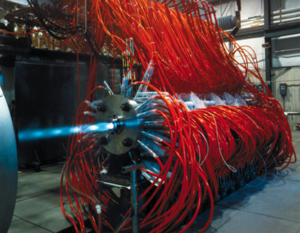 H3 Arc heater being test fired prior to the installation of the model injection system.